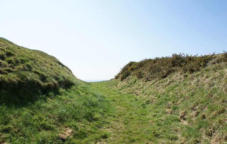 Barsalloch Fort, Dumfries and Galloway, Scotland - ditch